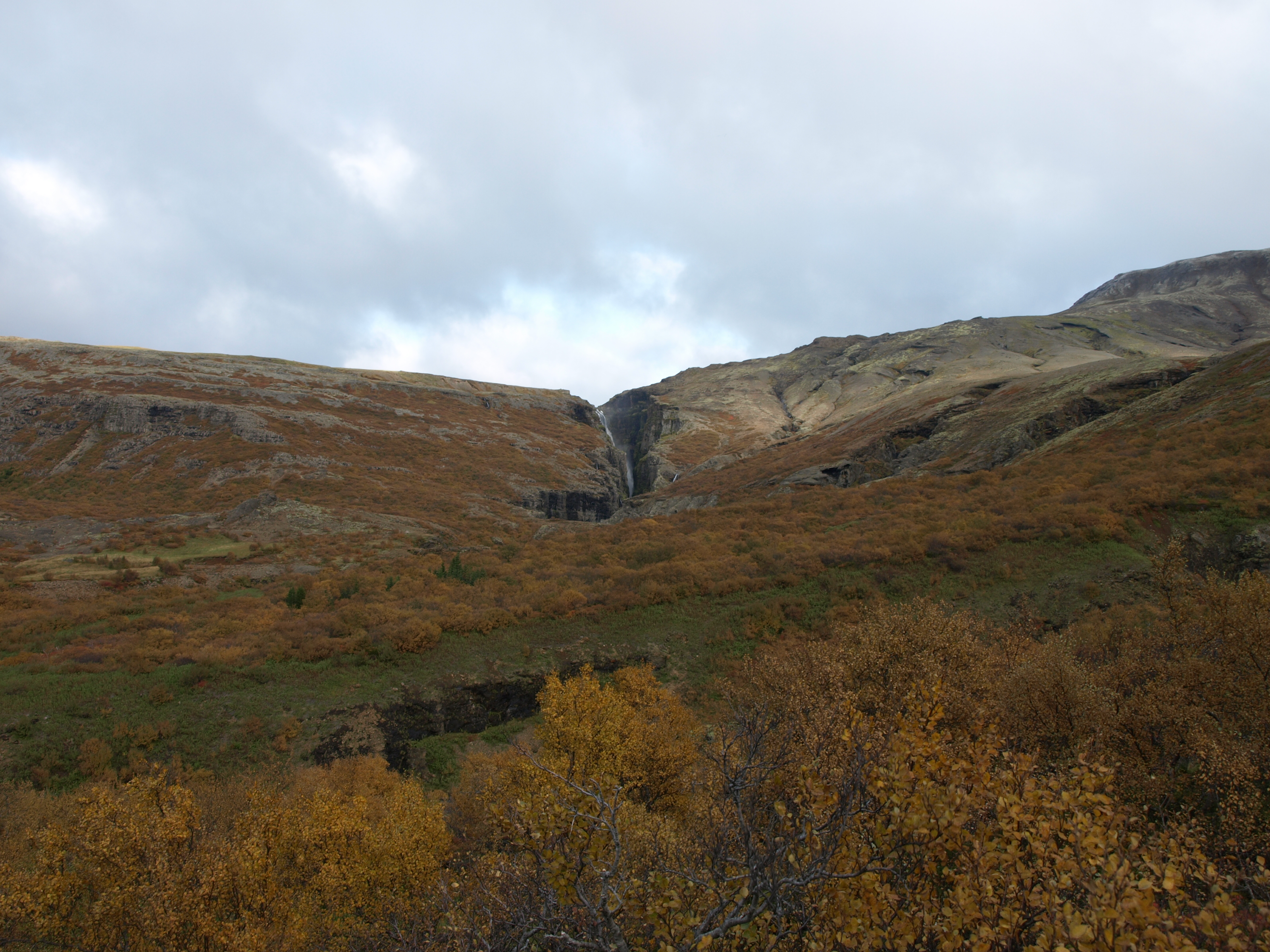 The gorge inside which Glymur, the highest waterfall in Iceland, is to be found in Botnsdalur in Hvalfjörður.